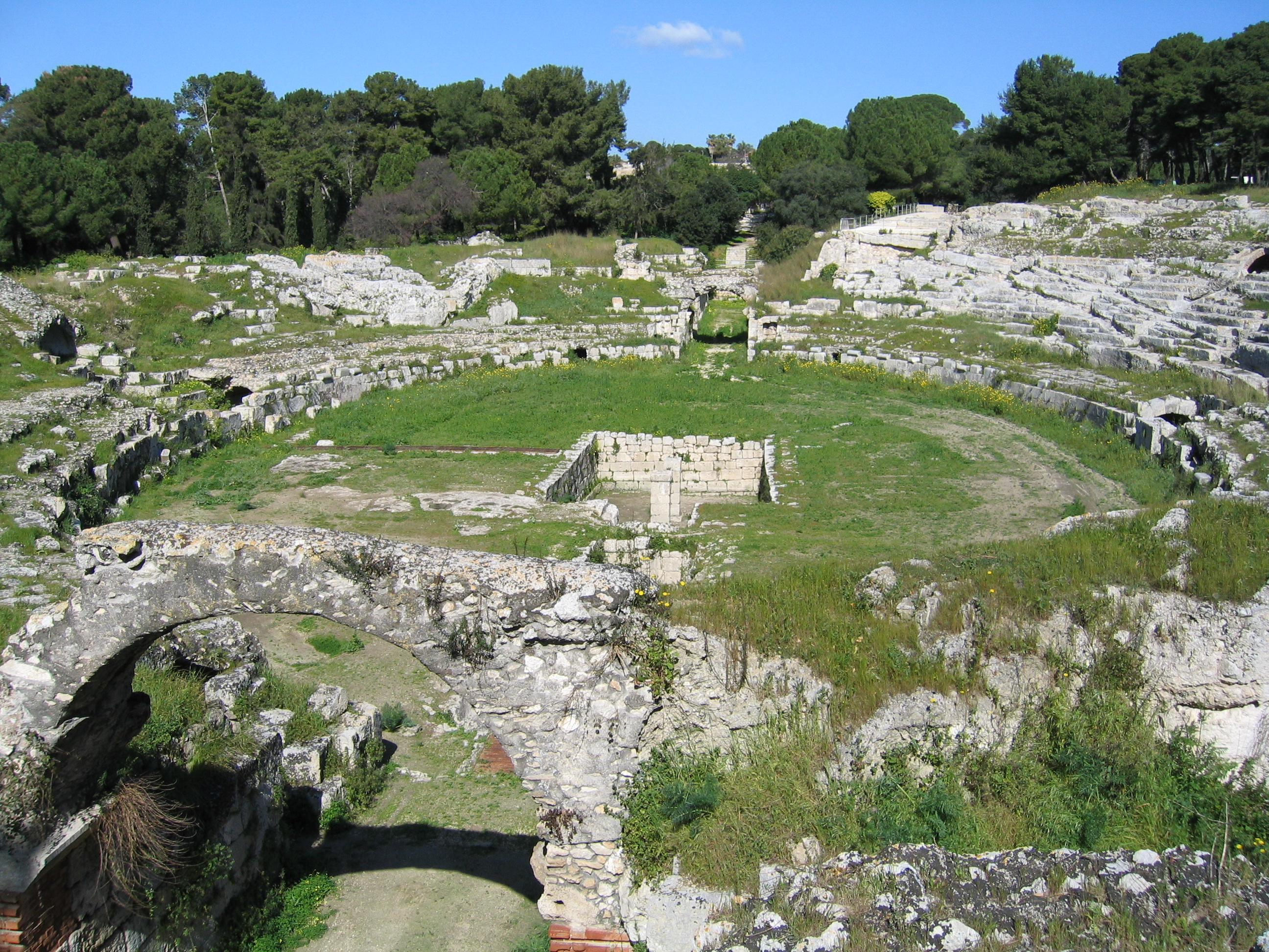 Roman Amphitheater - Siracusa, Italy